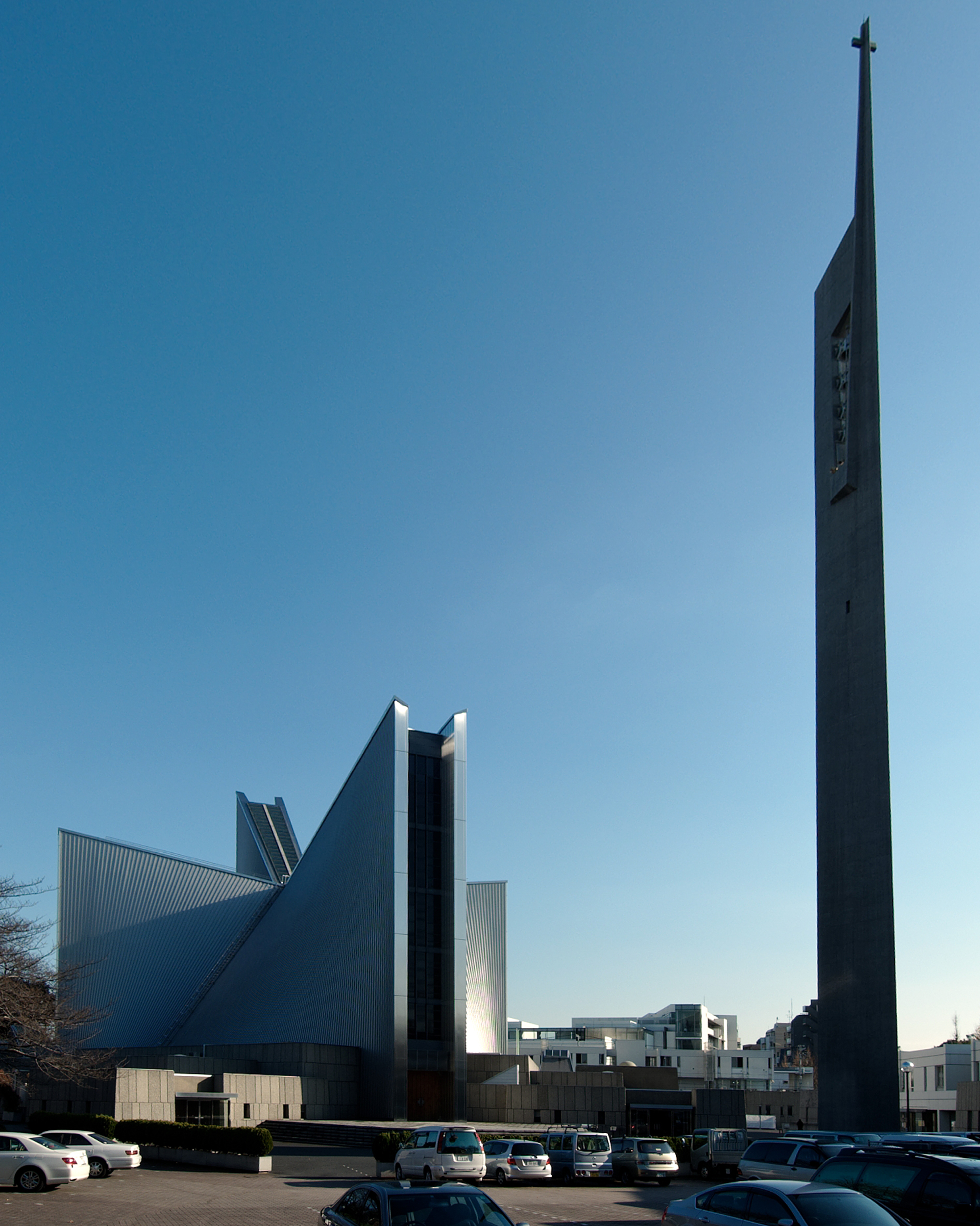 St. Mary's Cathedral, Tokyo, Bunkyo Tokyo Japan, design by Kenzo Tange in 1964.